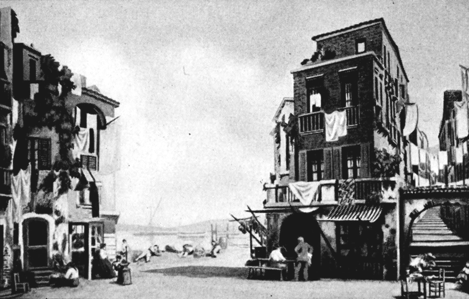 Wolf-Ferrari - I gioielli della Madonna, act II - Scene Title: The Victrola book of the opera : stories of one hundred and twenty operas with seven-hundred illustrations and descriptions of twelve-hundred Victor opera records Year: 1917 (1910s) Authors: Victor Talking Machine Company Rous, Samuel Holland Subjects: Operas Publisher: Camden, N.J. : Victor Talking Machine Co. Text Appearing Before Image: Jfi^. % i ^1 jMJt *t ~^l fir a/**1 i SCENE FROM JEWELS OF THE MADONNA (Italian) I GIOJELLI DELLA MADONNA (English) THE JEWELS OF THE MADONNA Libretto by C. Zangarini and E. Golisciani; music by Ermanno Wolf-Ferrari. First per-formed as Der Schmucfc der Madonna at the Kurfuersten Oper, Berlin, December 23, 1911.First American production at the Auditorium, Chicago, January 16, 1912. First New Yorkperformance March 5, 1912. Later included in the repertoire of the Century Opera Company. Text Appearing After Image: Characters GENNARO, in love with Maliella Tenor MALIELLA, in love with Rafaele Soprano RAFAELE, leader of the Cammorists Baritone CARMELA Soprano BlASO Tenor CICC1LLO Tenor STELLA Soprano CONCETTA Soprano SERENA Soprano GRAZ1A Dancer ROCCO Bass Vendors, Monks, People of theStreets, etc. SCENE ACT II Time and Place : The scene is laid in Naples, at the present time. Wolf-Ferraris vivid melodrama of Neapolitan life is based on actual happenings in thesqualid, superstitious life of the people of Naples, feverish with its reckless gayety, andmingled with sadness and gloom. The wild doings of the Cammorists, the preparations for 218 VICTROLA BOOK OF THE OPERA — JEWELS OF THE MADONNA the celebration in honor of the Virgin, the pageantry of the Catholic ceremonial and the wildtumult of Neapolitan revelries form the background and atmosphere for this realistic music-drama. The plot may be summed up as follows: Maliella, a wayward Neapolitan beauty, isloved by her foster brother, Qennaro, a